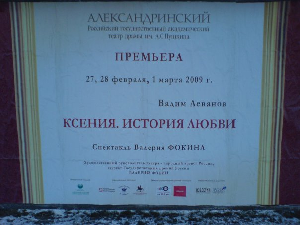 The playbill of the performance "Ksenia. Love story", staged in the "Russian state academic drama theater named A.S. Pushkin (Alexandrinsky theater)" (St. Petersburg) Valery Fokin on the play of Vadim Levanova "The Holy blessed Xenia of Petersburg in the life" in 2009. Embankment of the Chernaya river, St. Petersburg, Russia. February 2009.